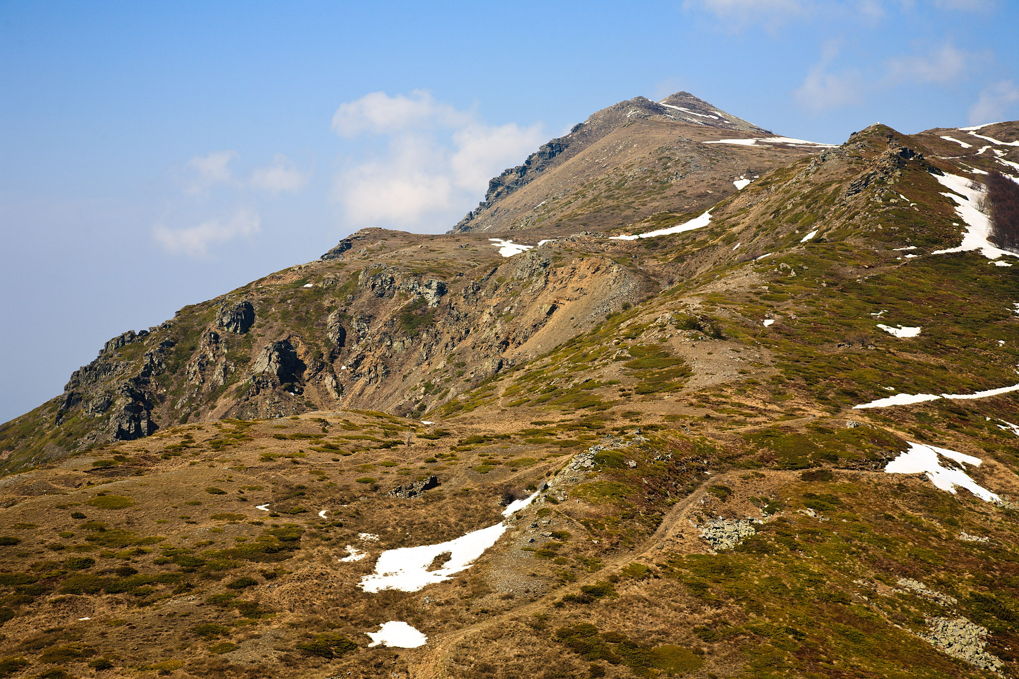 Tumba summit in Belasitsa